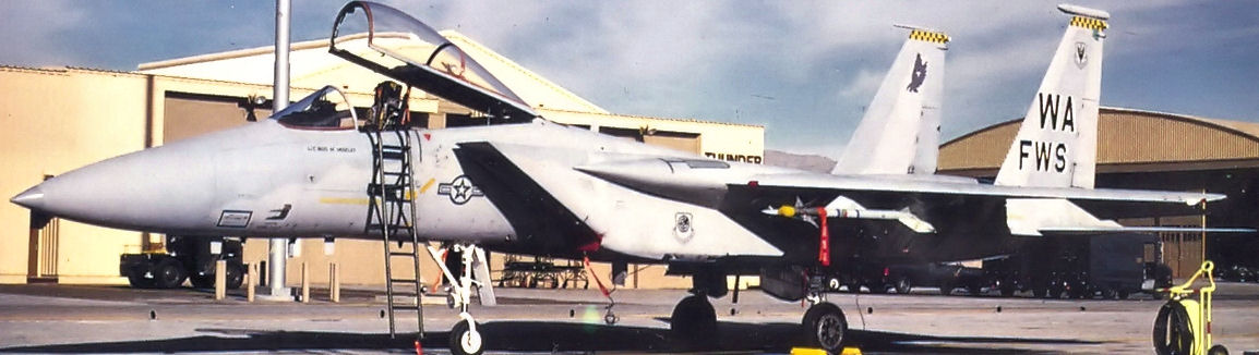 USAF Weapons School - McDonnell Douglas F-15C-34-MC Eagle 82-0038